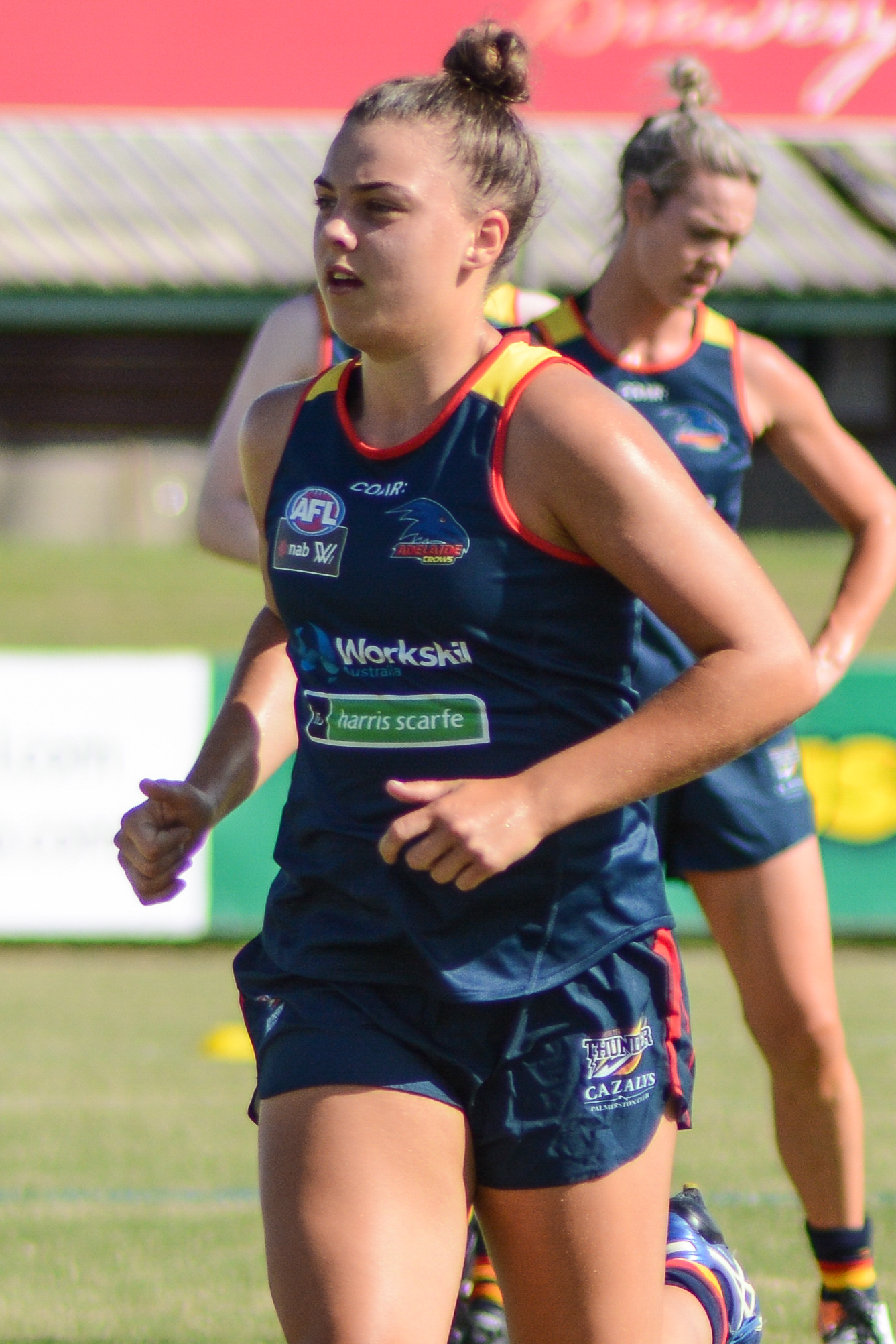 Ebony Marinoff playing for Adelaide in January 2017